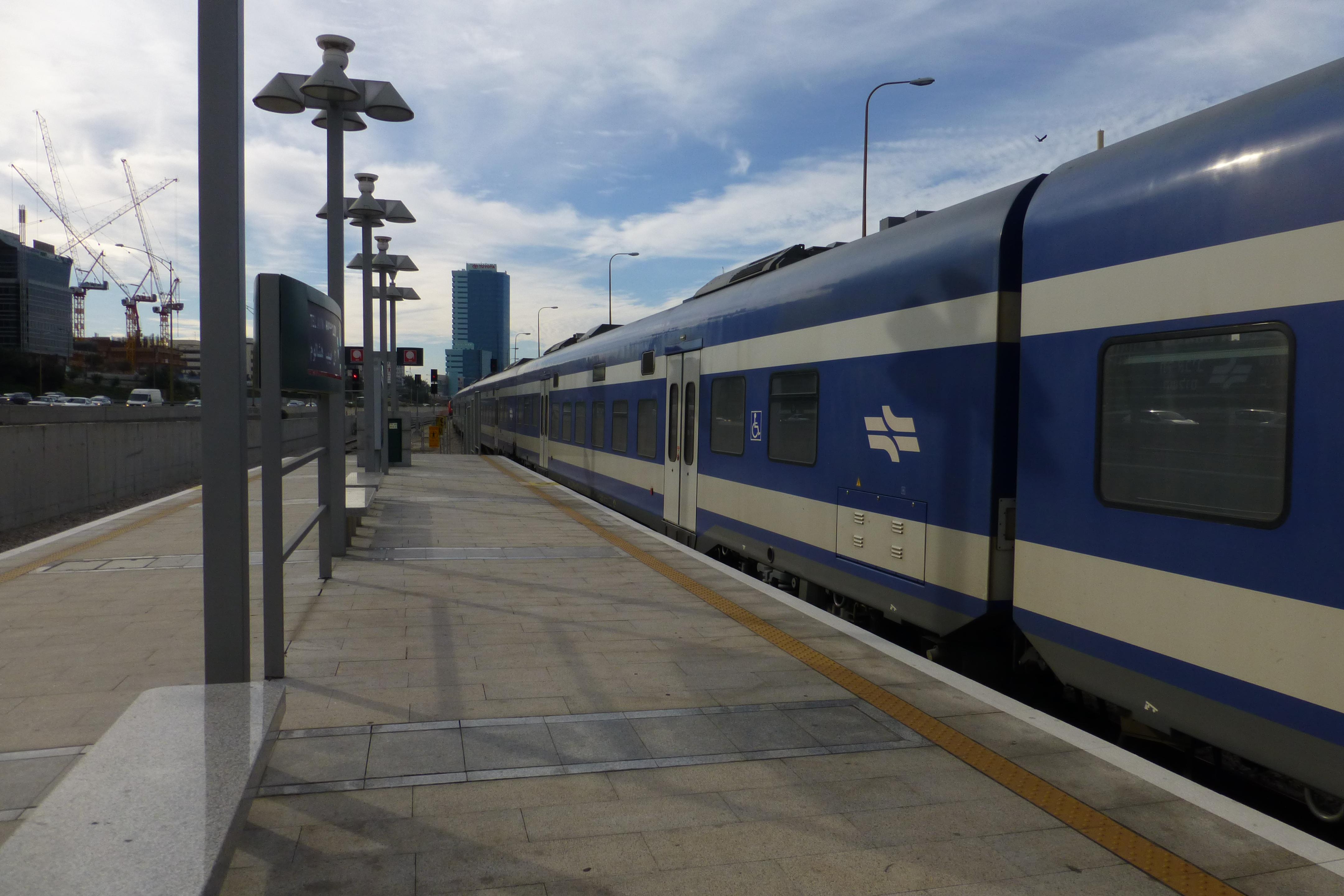 Tel Aviv HaShalom train station